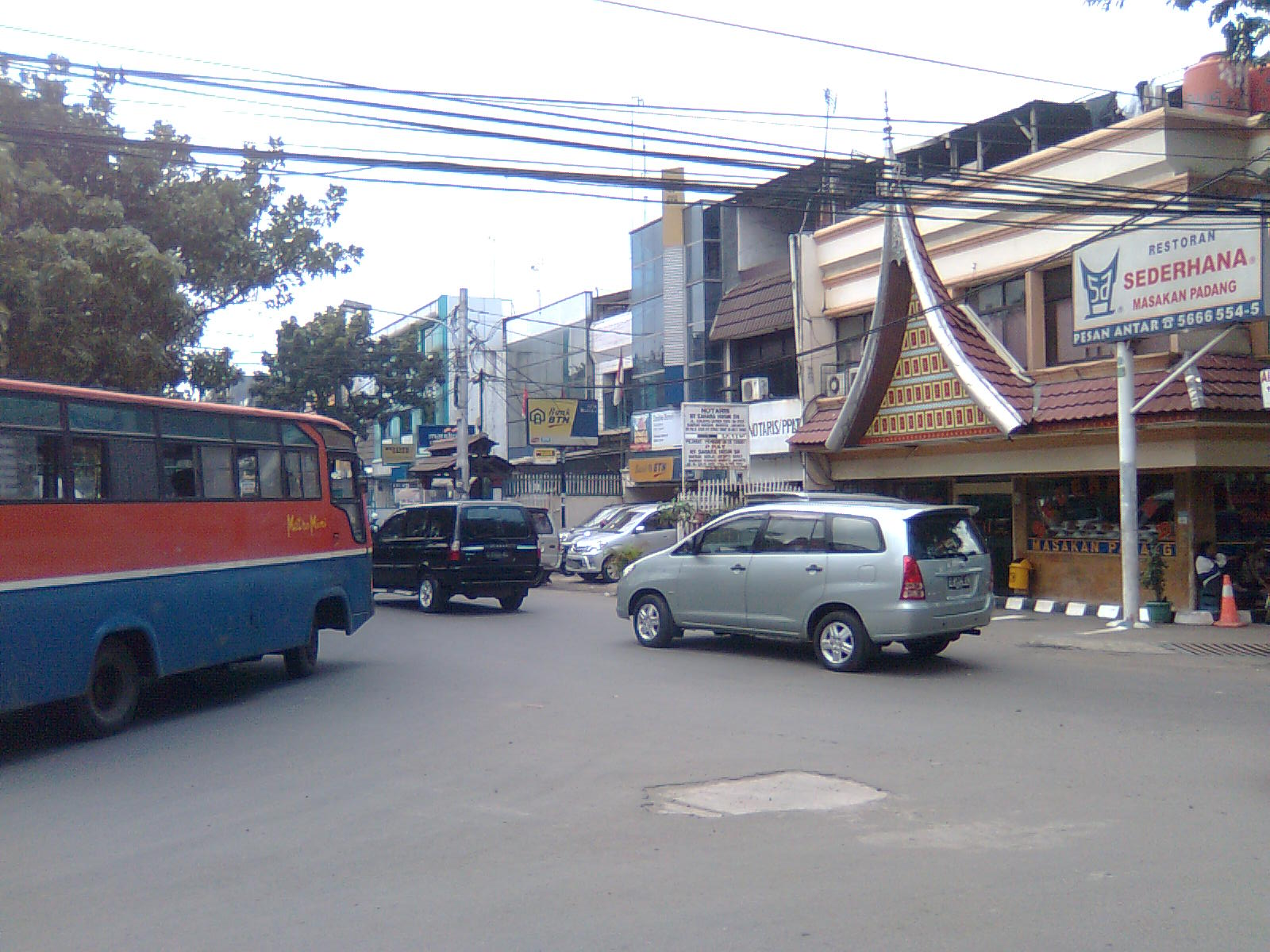 Jalan Tanjung Duren Raya, West Jakarta.